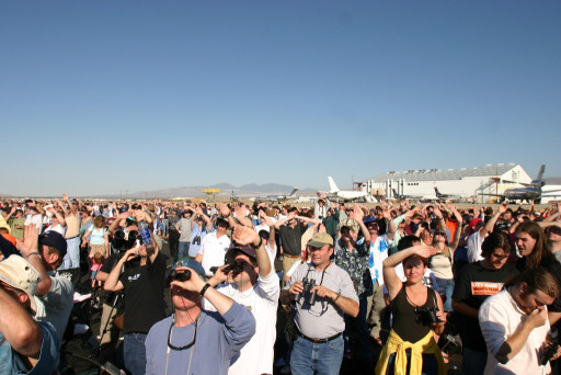 Assembled crowd watching SpaceShipOne flight 15P peers skyward. Photo by Nathan Schmidt June 21, 2004 8:07:04 am, Mojave CA Something which will probably apply to future launches - the crowd was situated west of the launch, after sunrise. The launch would have been difficult to see in any event due to the altitude but the reduced contrast caused by the near alignment of sun, planes, and crowd didn't help matters. Hence the squinting and long shadows.